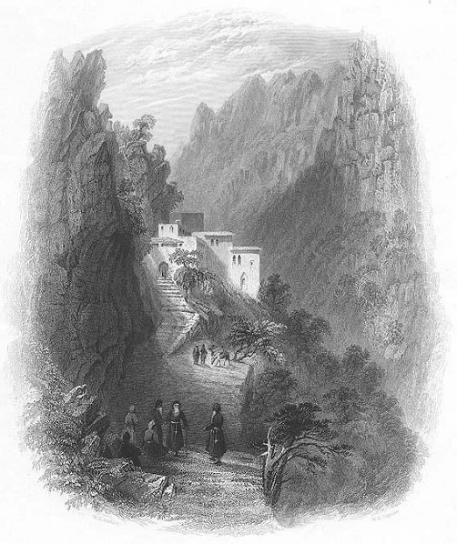 Monastery of Qozhaya, North Lebanon, engraving by Bartlett